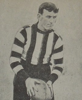 Photograph of Jim Sadler in 1910